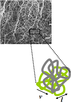 The concept introduced by D. Le Bihan is that water flowing in randomly oriented capillaries (at the voxel level) mimics a random walk.